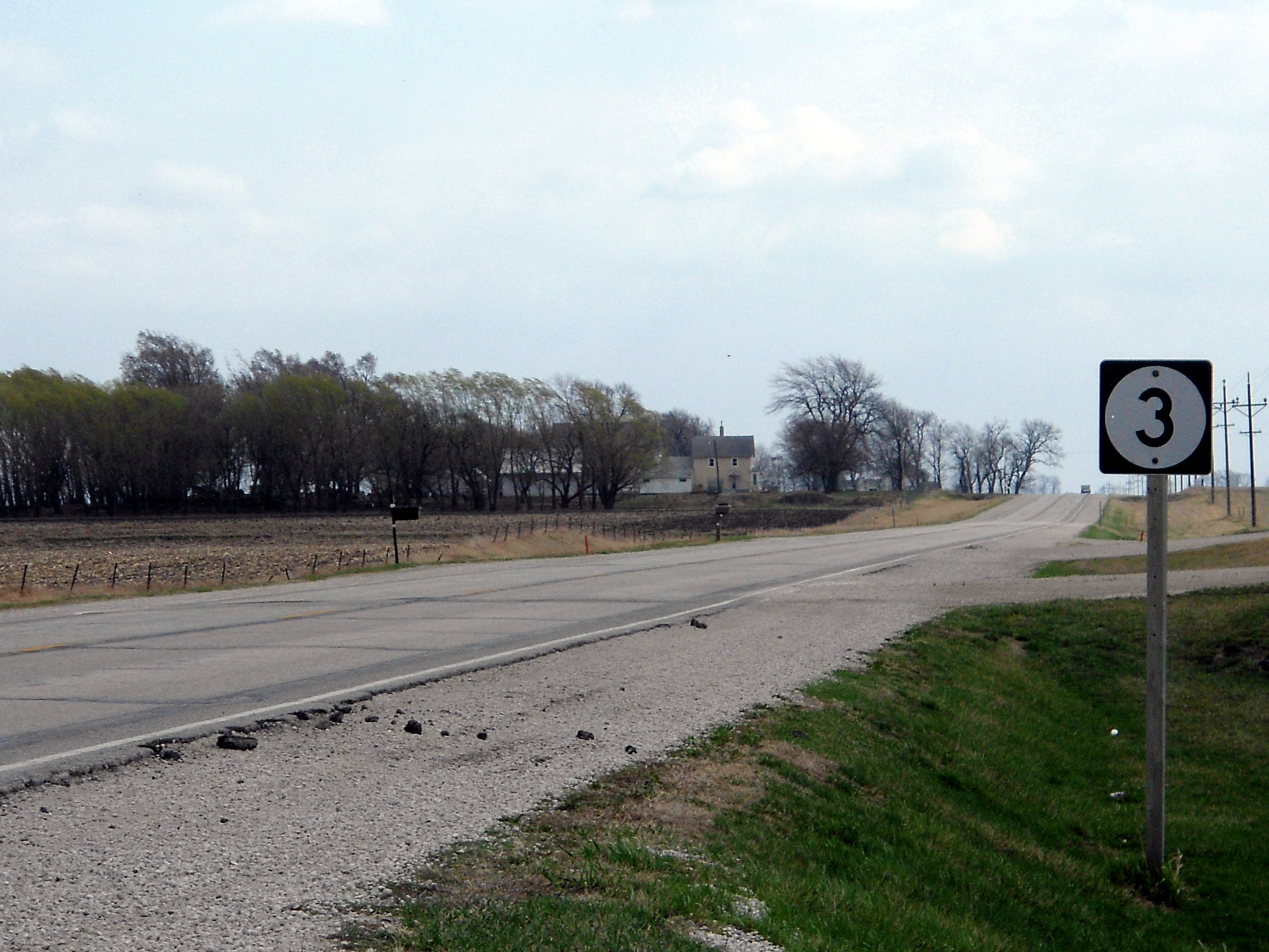 Image of Highway 3 east of Humboldt, Iowa. Very typical image of the route across the state.